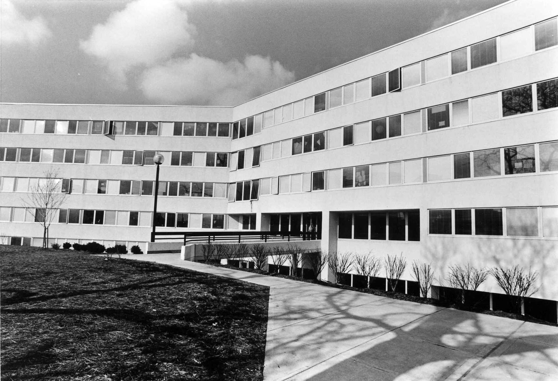 The Schottenstein Residence Hall was completed in 1985 as the first campus dorm.